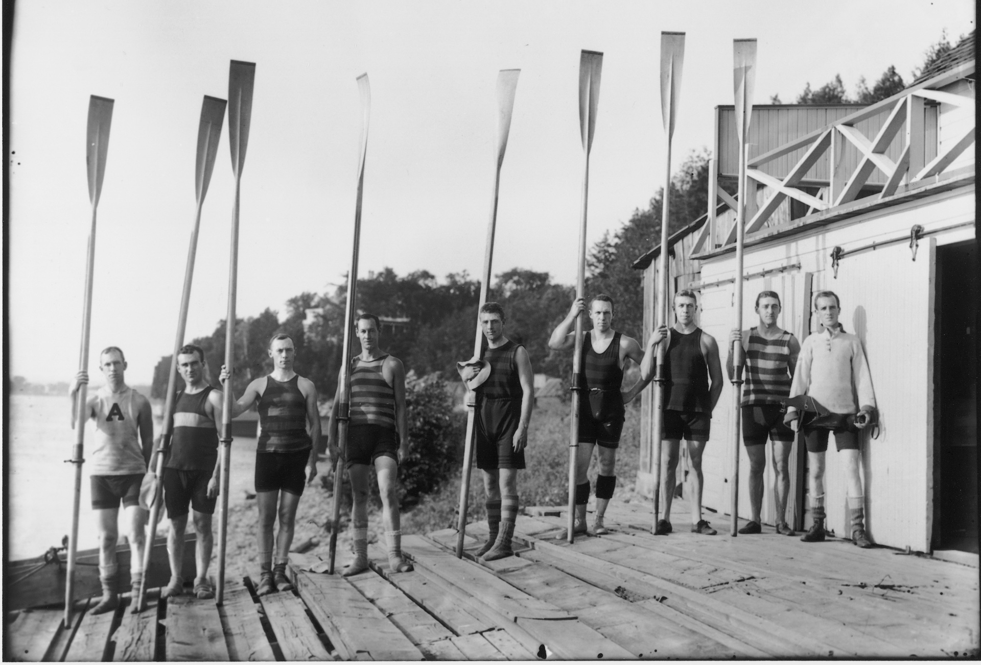 1910 crew of the Ottawa Rowing Club. The crew was made of the following persons represented from left to right on the above, joint picture: Harvey Pulford (stroke), Eddie Philips (7-seat), Bill Harrison (6-seat), Bob Greene (5-seat), Jim McCuaig (4-seat), Marty Kilt (3-seat), Thayer Jolliffe (2-seat), Felix Sowden (bow-seat), and Chester Payne (coxswain).